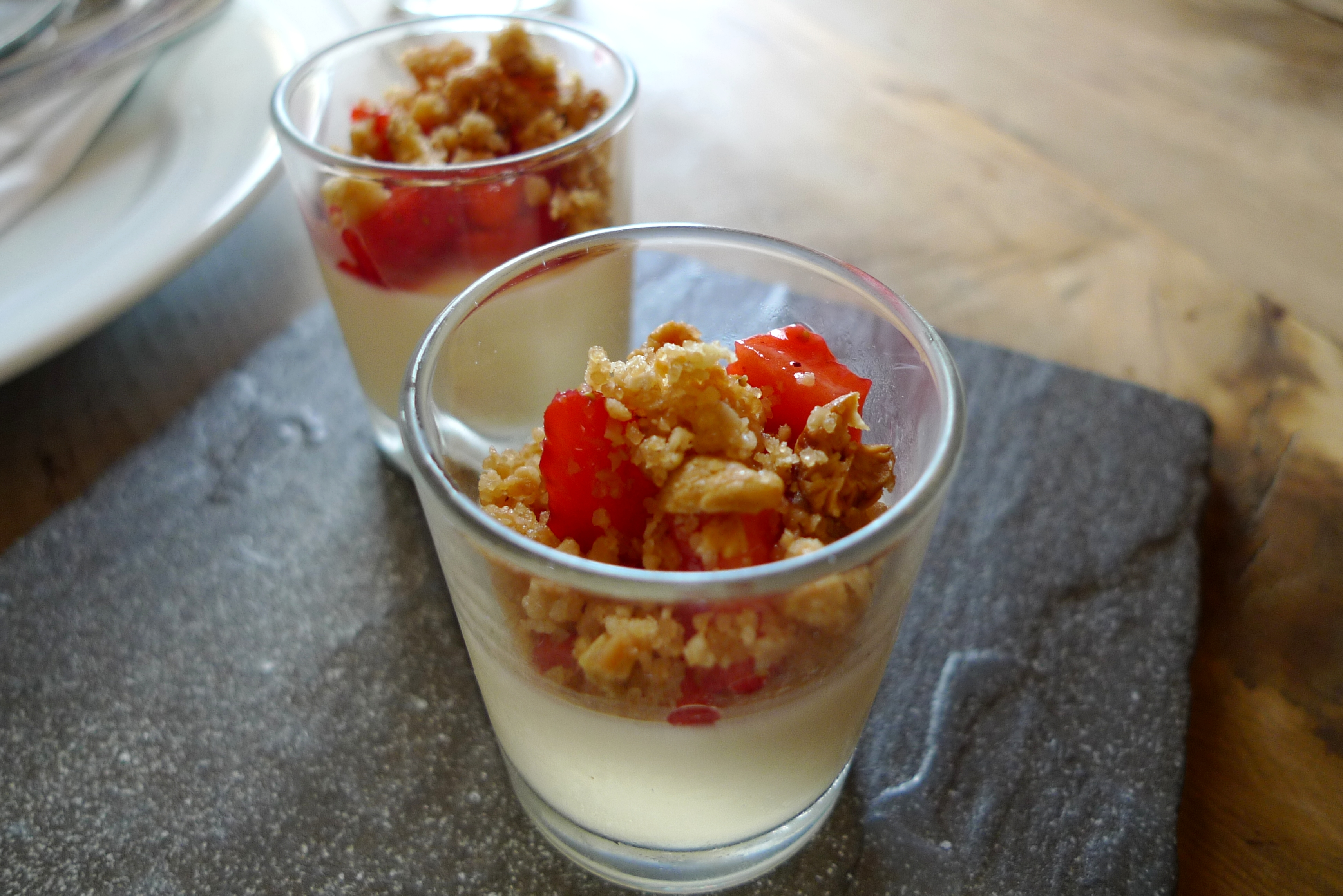 Jasmine tea junket, a palate cleanser before dessert. At The Sportsman, Faversham Road.